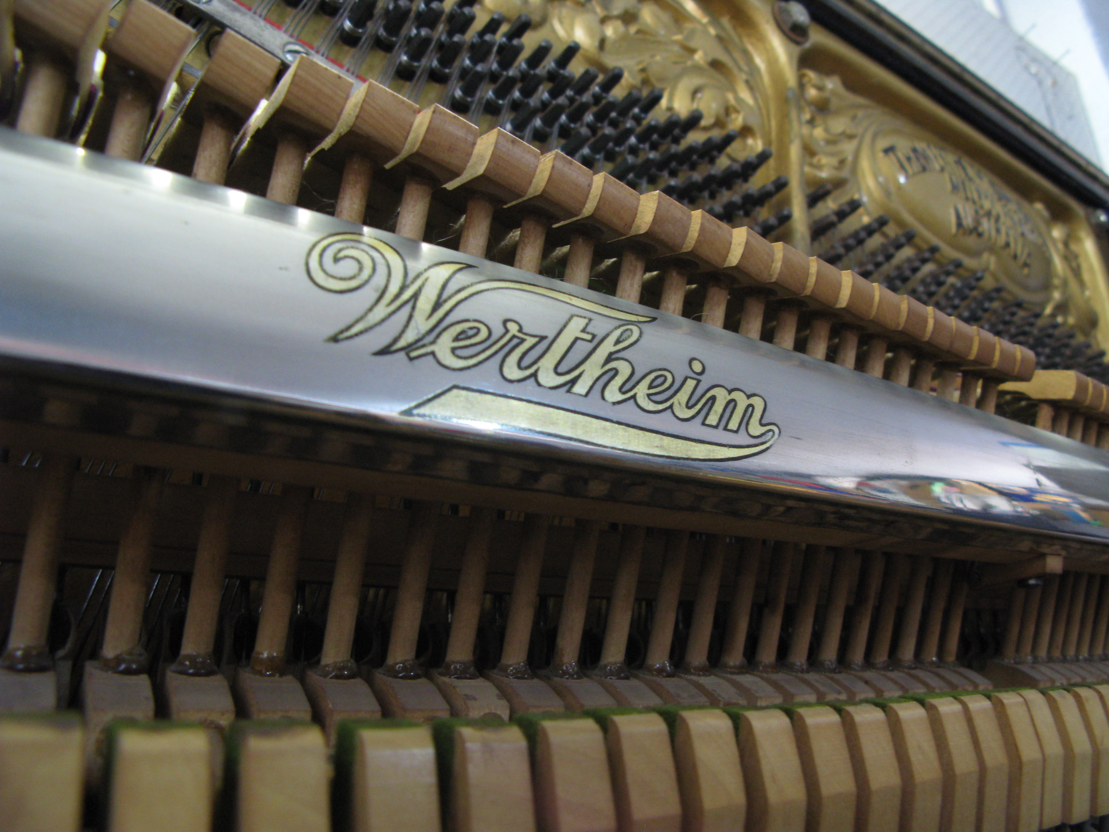 Photograph showing internal elements and internal logo of a Wertheim upright piano.